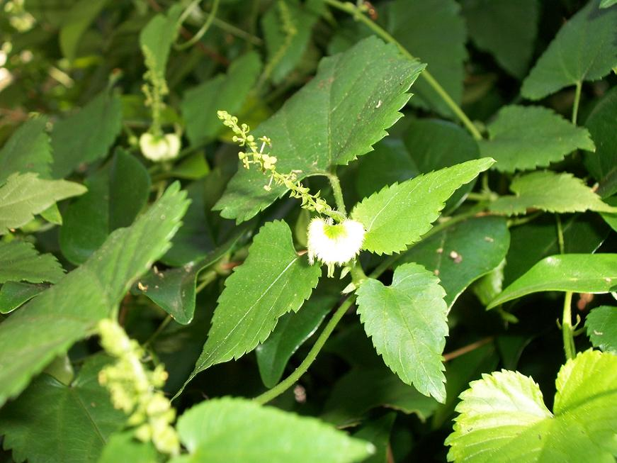 Tragia glabrata in flower, from Athlone Park, Amanzimtoti, South Africa.